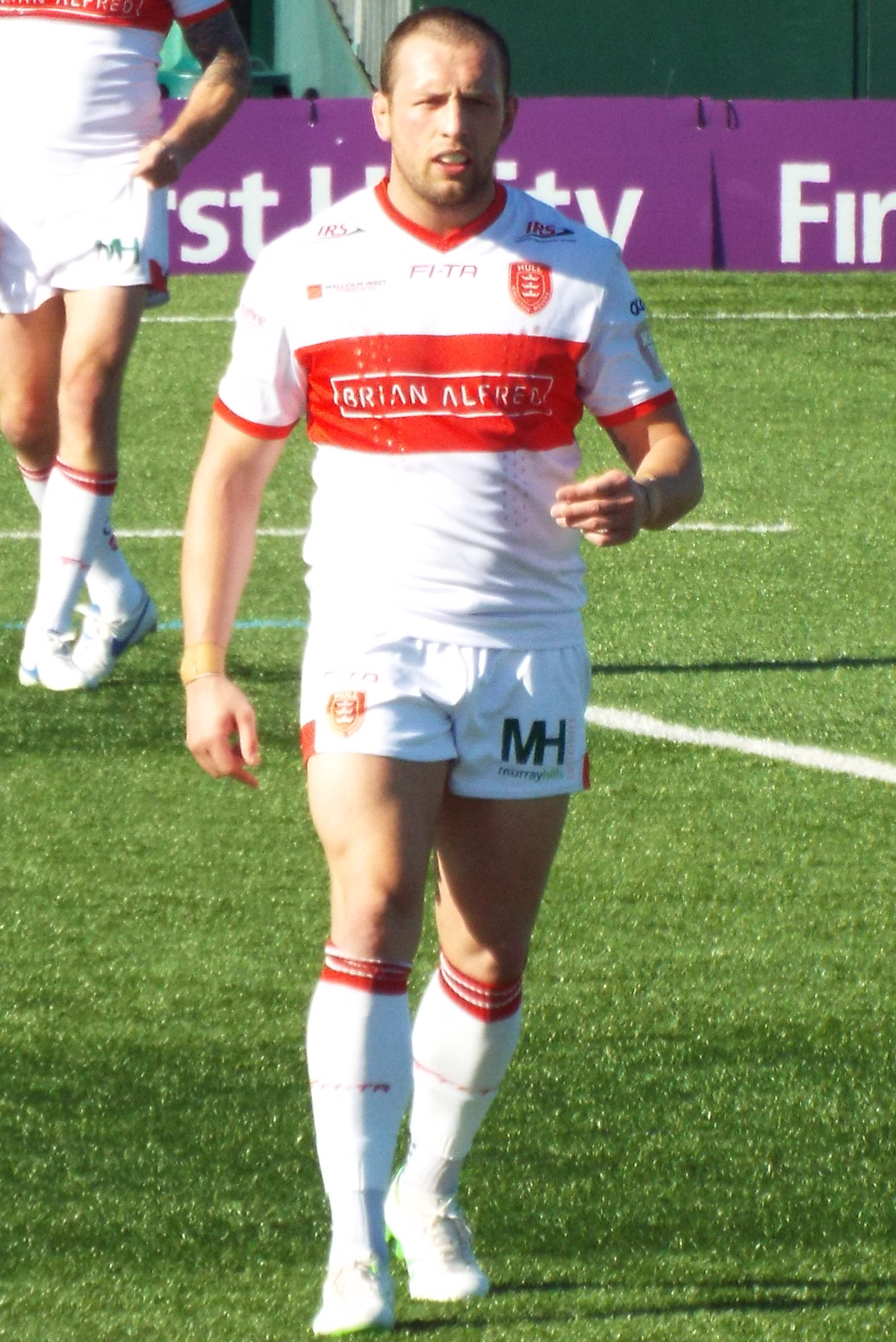 Shaun Lunt